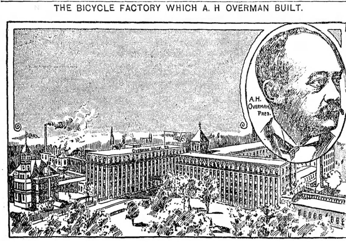 Graphic of the factories of the Overman Wheel Company, and its founder, A. H. Overman